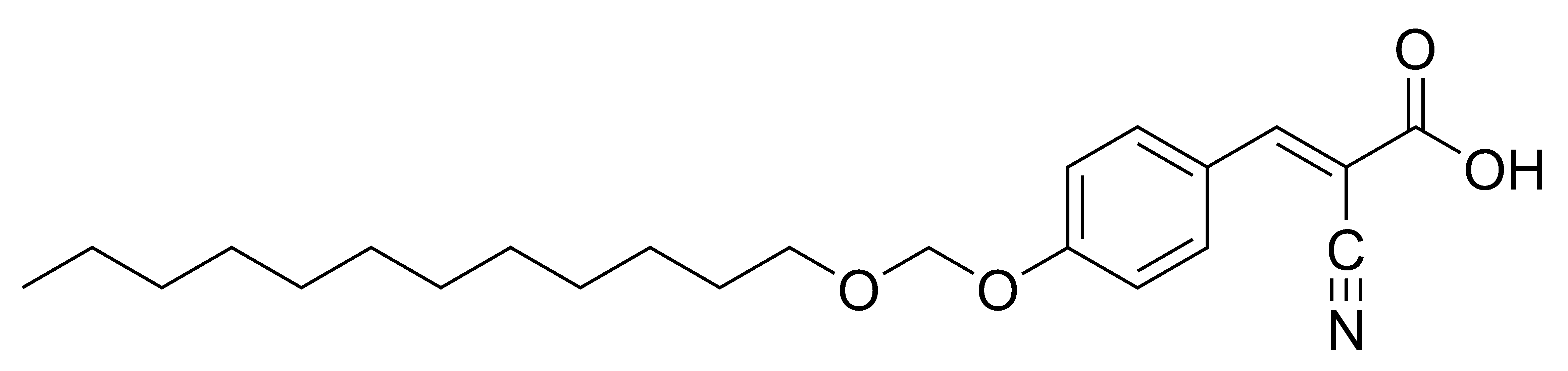 Chemical structure of a cleavable detergent